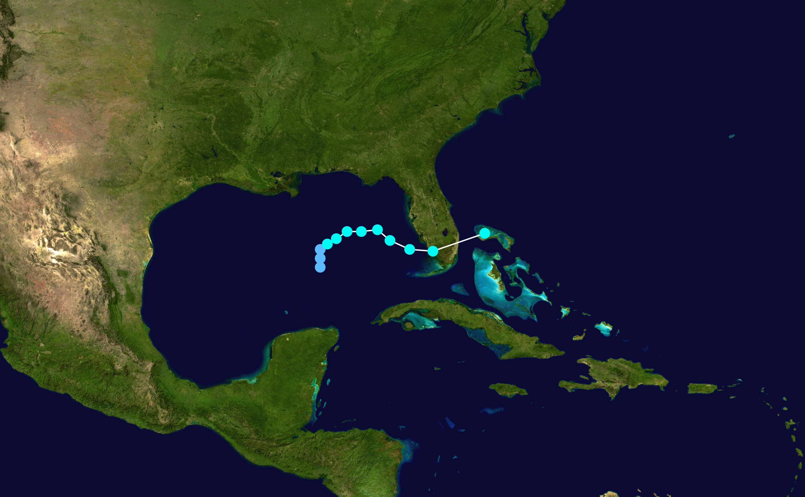 Track map of Tropical Storm Harvey of the 1999 Atlantic hurricane season. The points show the location of the storm at 6-hour intervals. The colour represents the storm's maximum sustained wind speeds as classified in the Saffir–Simpson scale (see below), and the shape of the data points represent the nature of the storm, according to the legend below. Saffir–Simpson scale Tropical depression≤38 mph≤62 km/h Category 3111–129 mph178–208 km/h Tropical storm39–73 mph63–118 km/h Category 4130–156 mph209–251 km/h Category 174–95 mph119–153 km/h Category 5≥157 mph≥252 km/h Category 296–110 mph154–177 km/h Unknown Storm type Tropical cyclone Subtropical cyclone Extratropical cyclone / Remnant low / Tropical disturbance / Monsoon depression